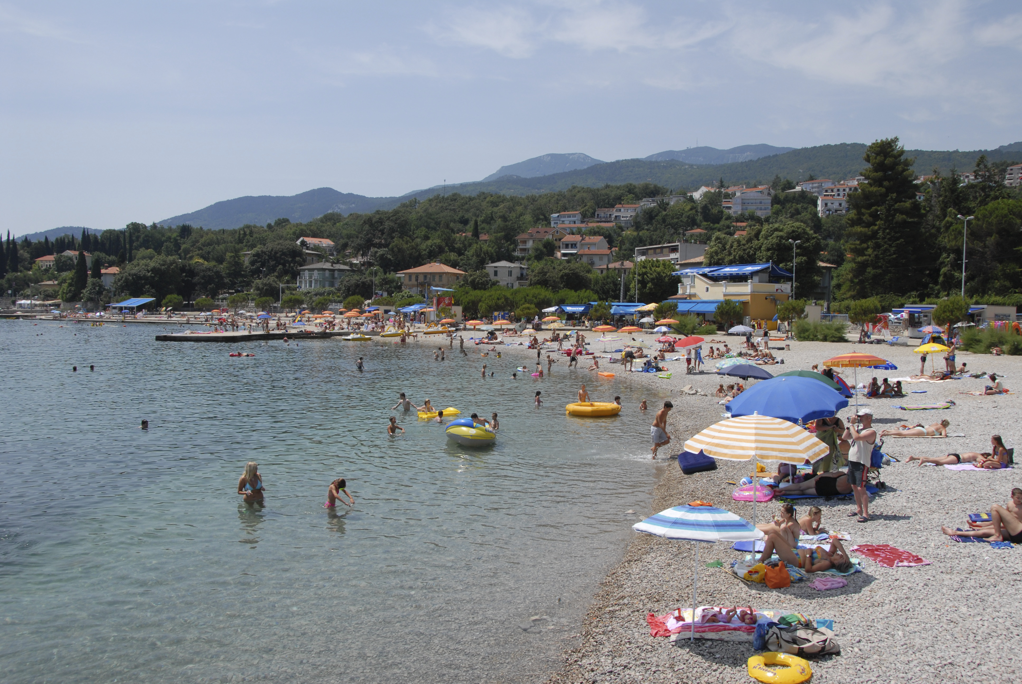 A long view to the beach